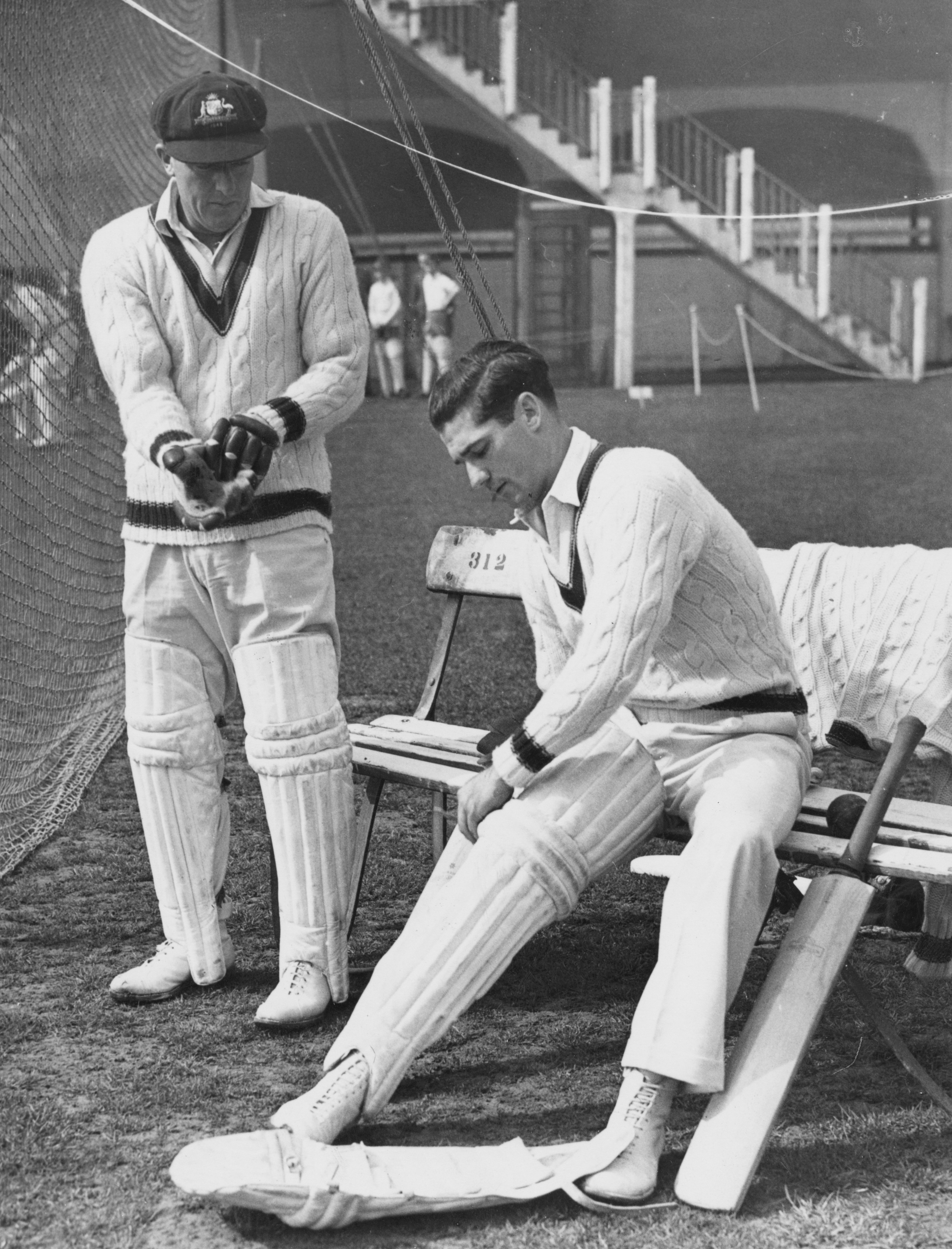 Neil Harvey, 19 year old Australian, playing in his first Test match against England, being congratulated by Loxton after scoring his century